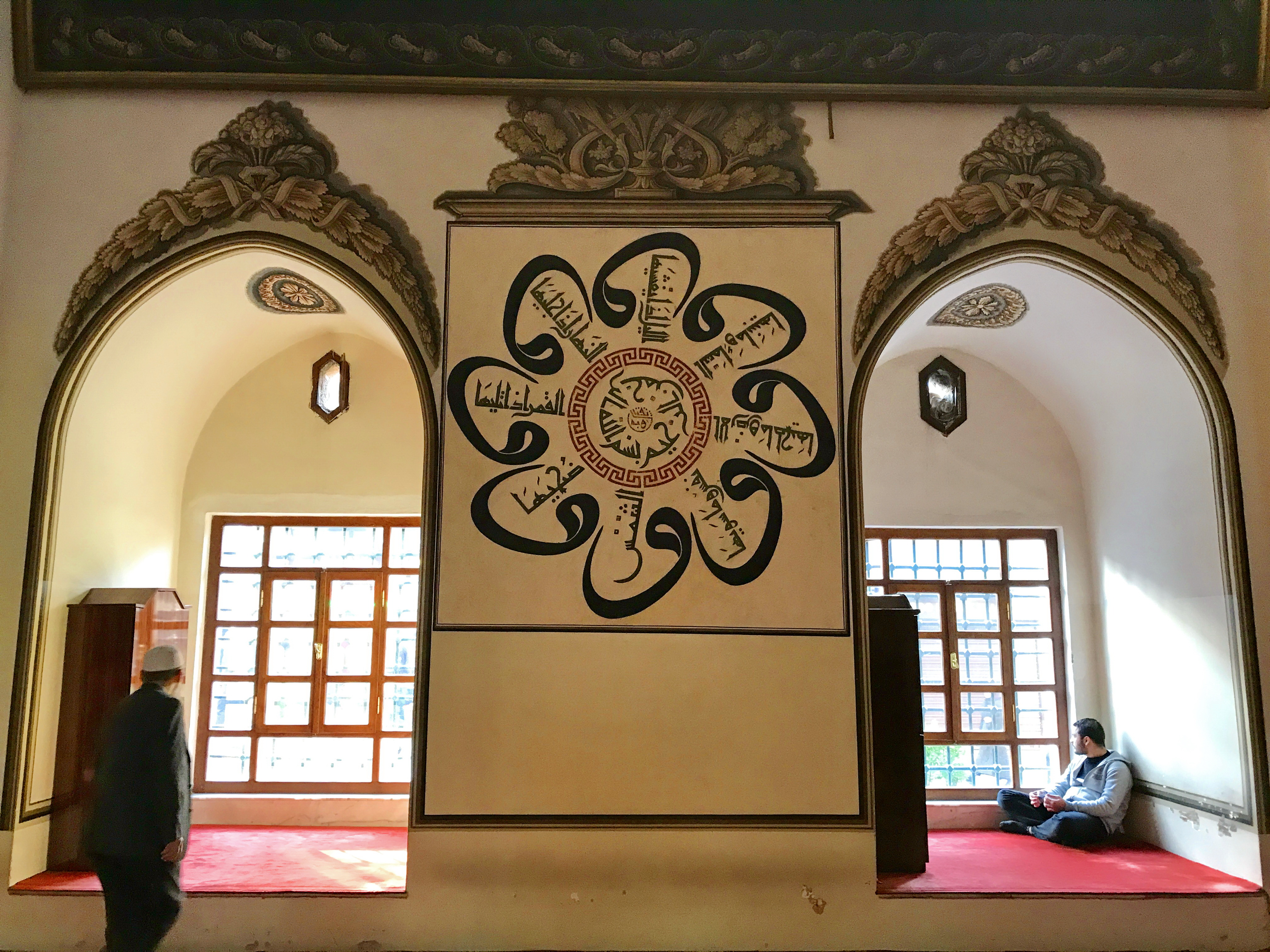 Arabic Calligraphy inside "Ulu Cami" (Grand Mosque of Bursa), Bursa, Turkey. Verses of Quran, Hadith, and wisdom. Ulu Cami is built in the Seljuk style, it was ordered by the Ottoman Sultan Bayezid I and built between 1396 and 1399. The mosque has 20 domes and 2 minarets.